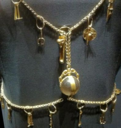 Hoard from Șimleu-Silvaniei